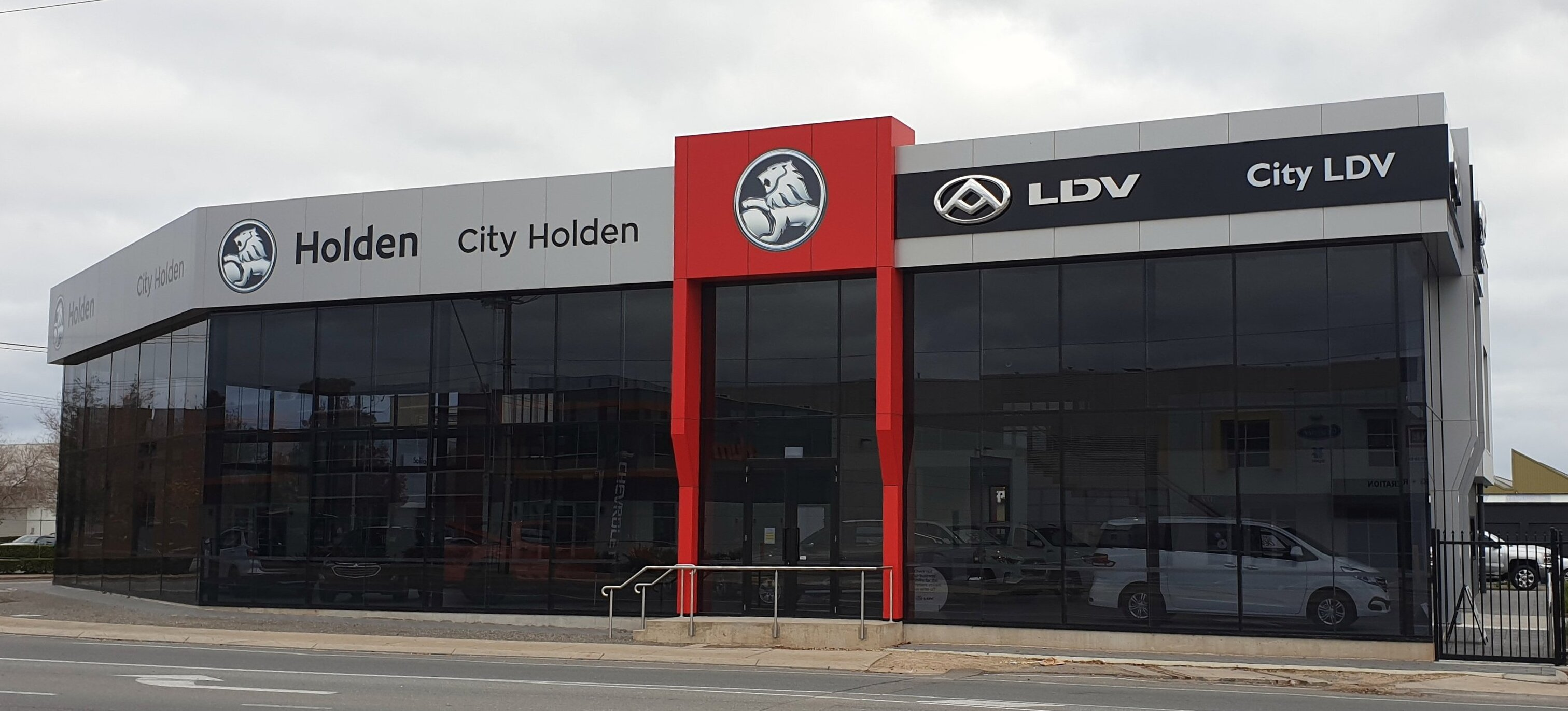 This dealership was dubbed, the unluckiest Holden dealership in Australia, when nearing the completion of their new 6.5million dollar showroom development, GM announced Holden would be exiting the Australian market by the end of 2020. City Holden was once located right in the heart of Adelaide, before moving to it's current location on Railway Terrace at Mile End, which is a rather odd location, as there aren't any other mainstream dealerships on that area. There is a large Solitaire servicing premises close by doing Volkswagen, Skoda, Audi, Land Rover and Jaguar, but no new car dealerships. As you can see, they're also an LDV dealer, but I've yet to hear what brand will be replacing Holden once they run out of stock.